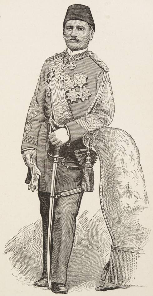 Ratib Pacha, Commander of Egyptian Army in Abyssinia.Egyptian army commander leans on a chaise lounge. He is wearing several medals a sash and carrying a sword.